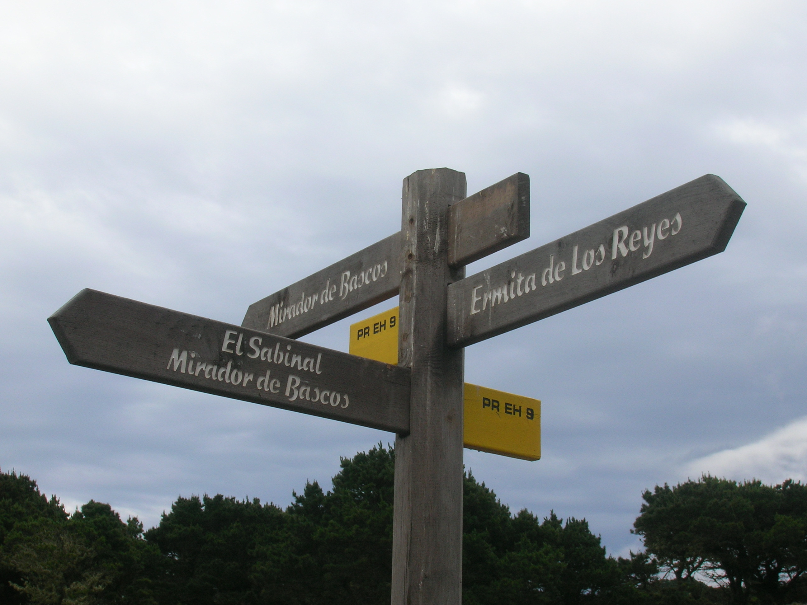 Footpaths of El Hierro, crossroad. El Hierro, Canary Islands. Spain.